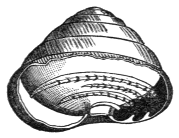 drawing of the shell of Strobilops labyrinthicus showing internal lamellae